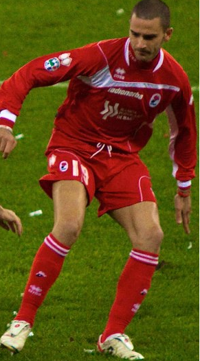 Leonardo Bonucci